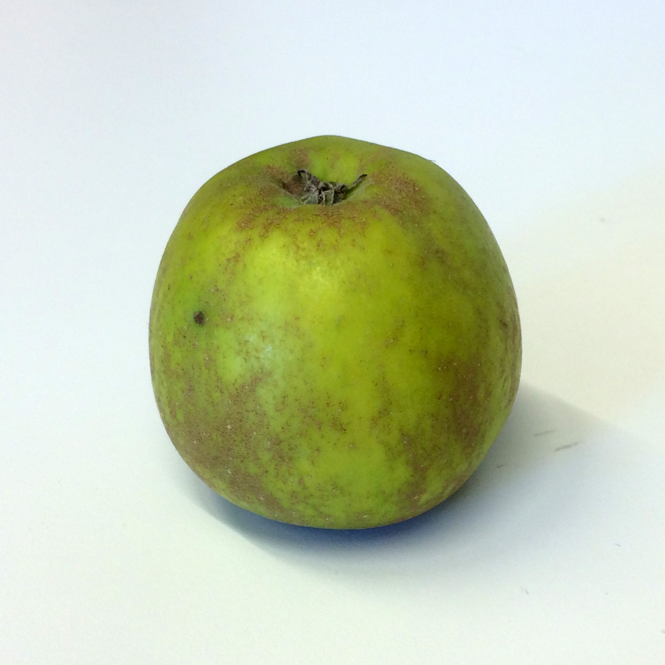 Apple of the cultivar Ribston, photographed in conjunction with the Apple Festival at Nordiska museet, Stockholm, Sweden in September 2014.